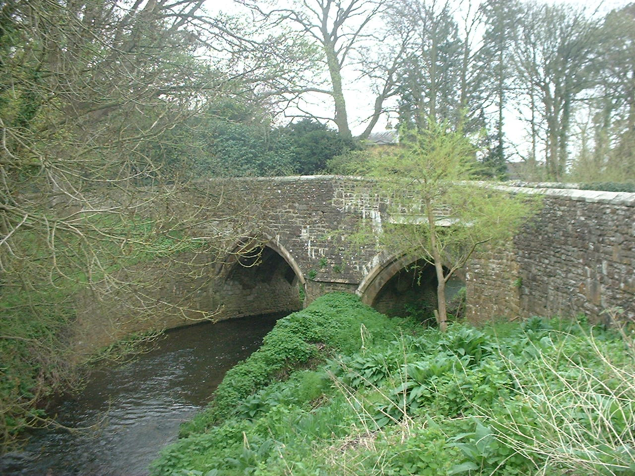 Bridge at Stanton Drew. Taken by Rod Ward 26th April 2006